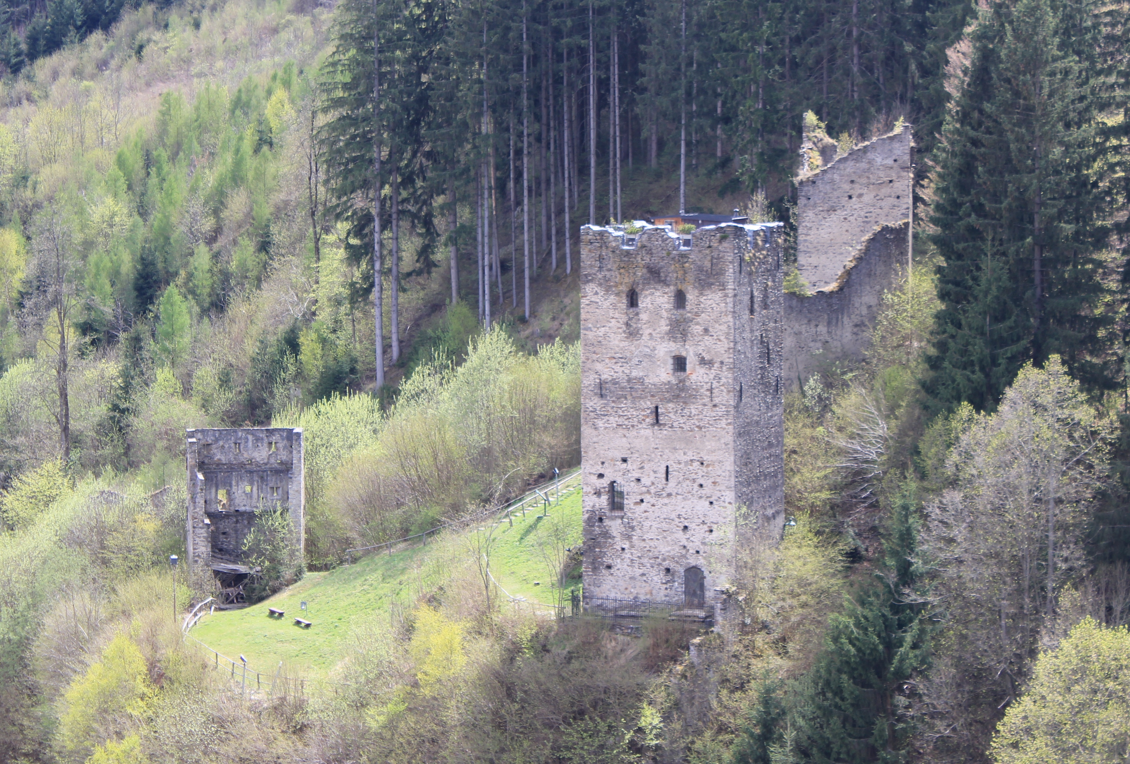 Rotturm in Friesach